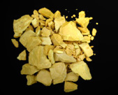 Foto von Schwefelleber (en: a photograph of sulfurated potash)